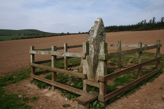 Ogham stone, with protective railing, at Fiddaun Upper.